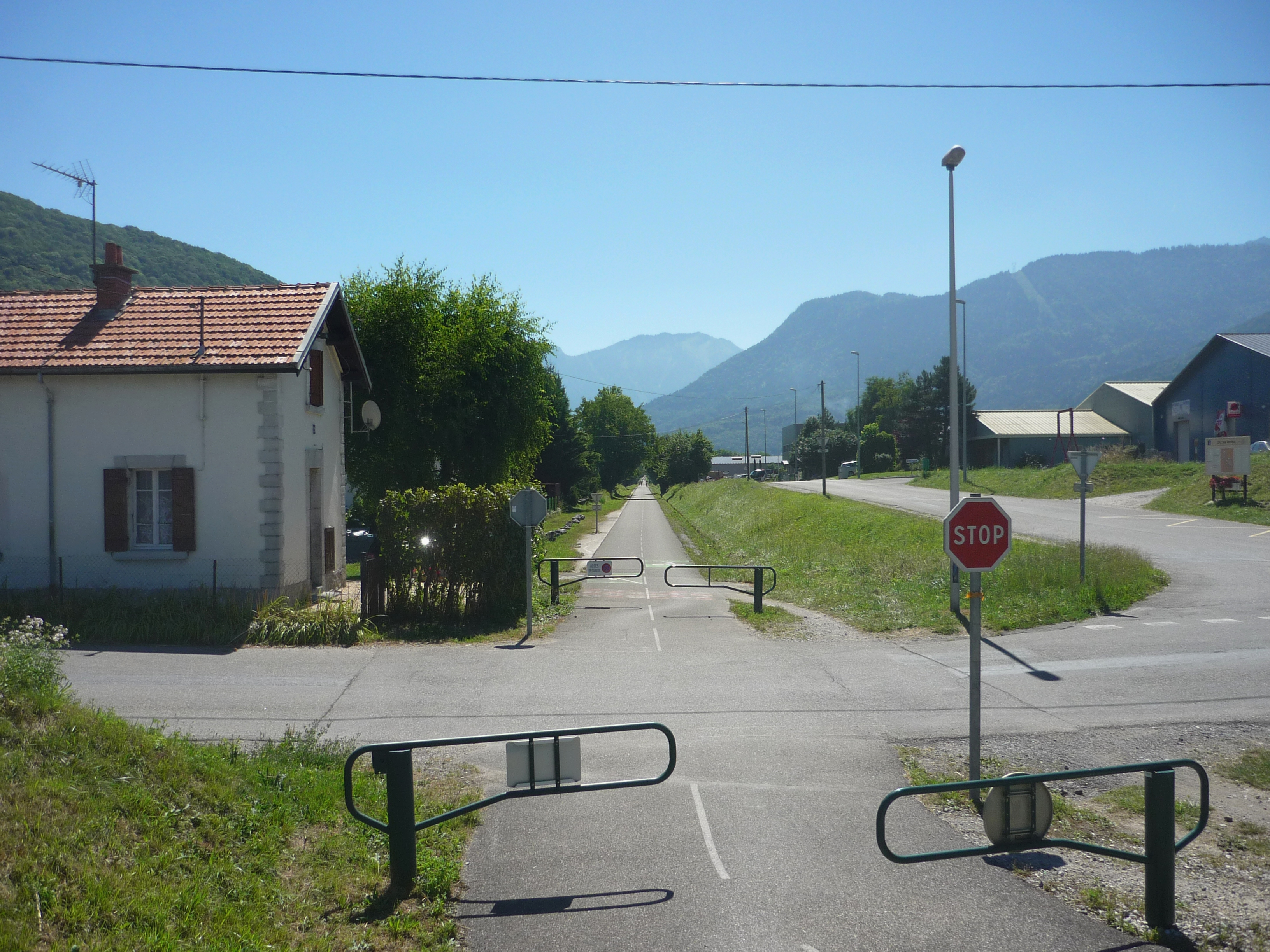 Doussard, Haute-Savoie, France